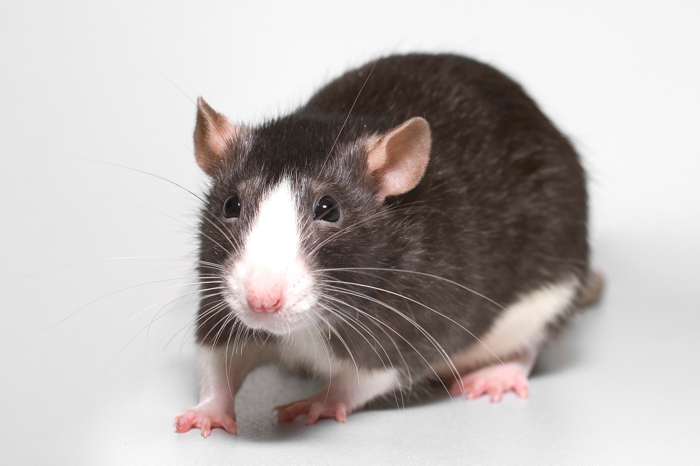 A pet fancy rat: black? standard blaze